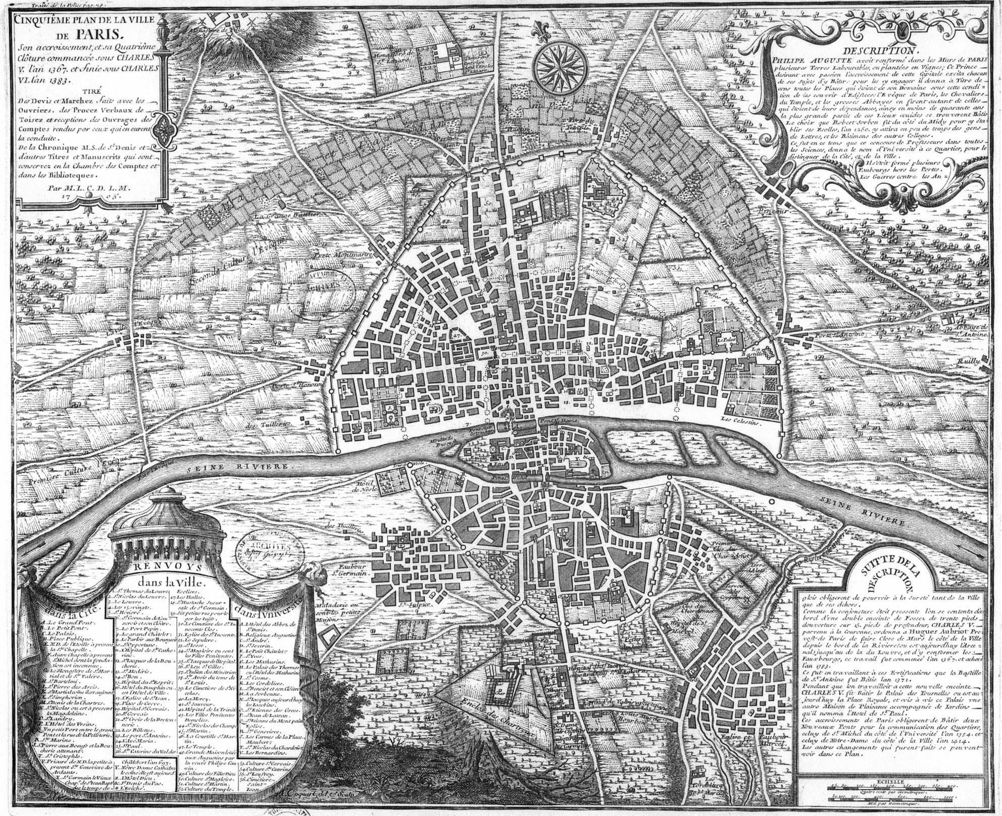 Plan of Paris in 1383, the fifth of eight chronological maps of Paris from Traité de la police